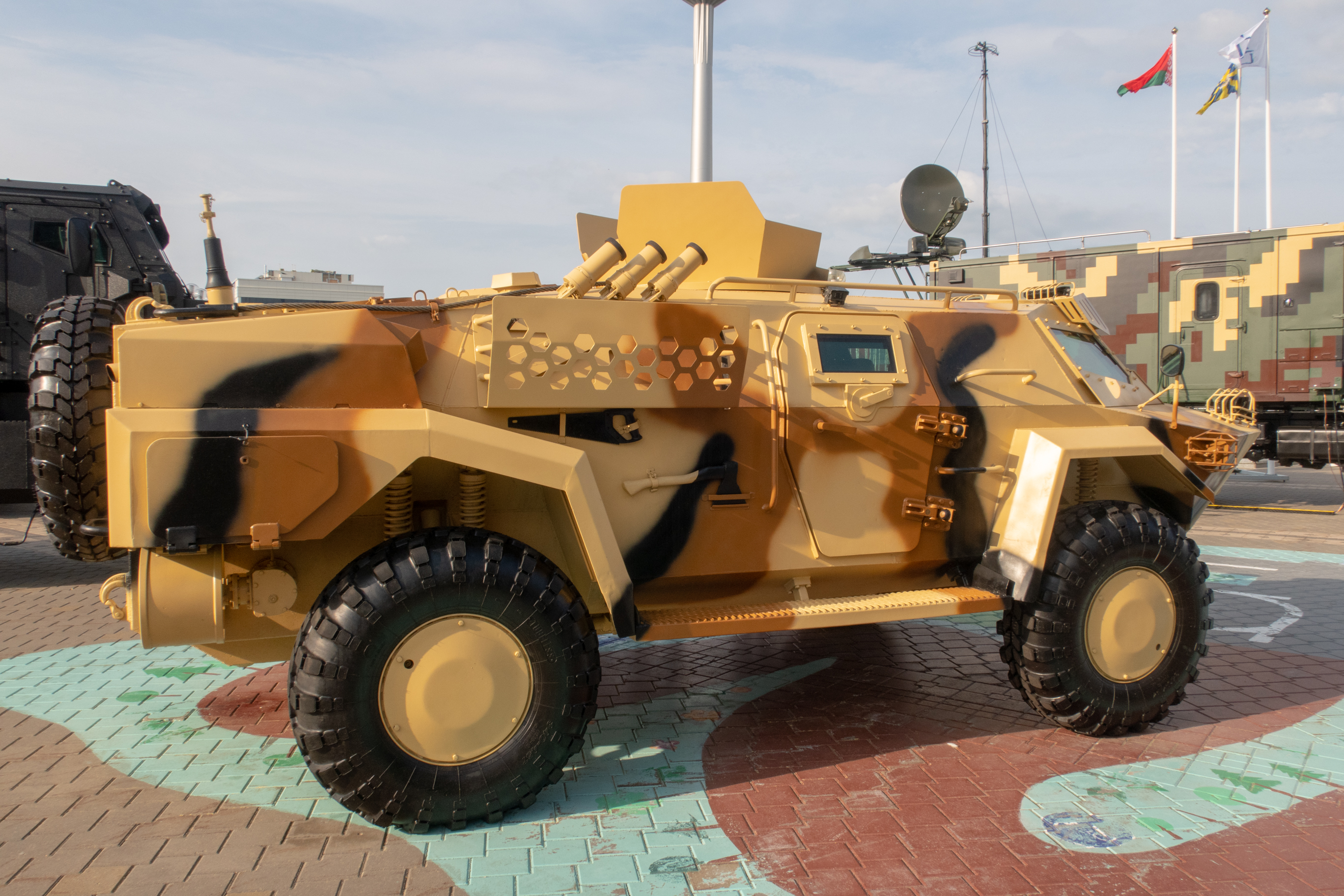 Caiman (Kayman) armoured car. Photo taken at Milex-2019 arms and military machinery exhibition (Minsk, Belarus)